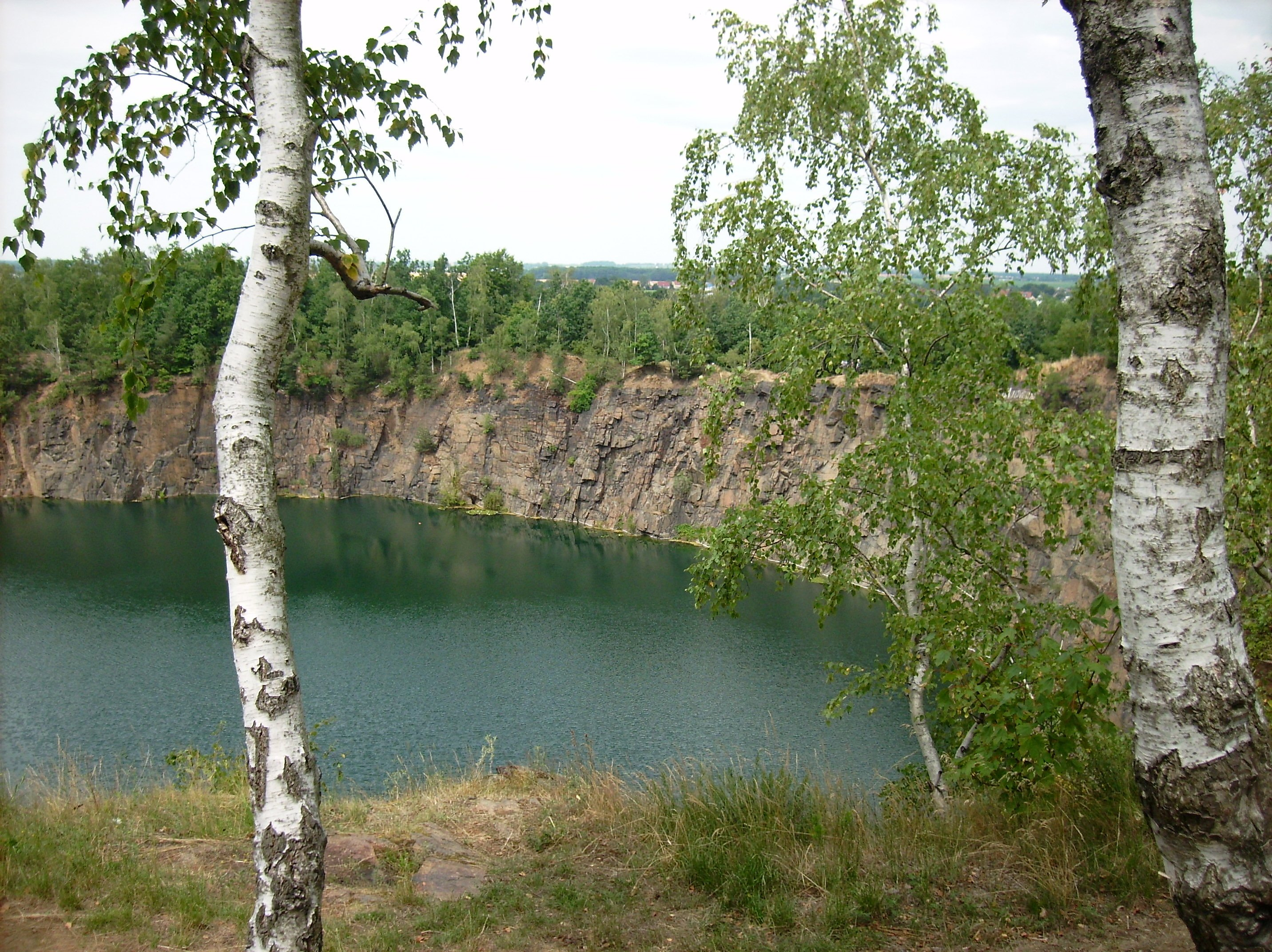 Former western quarry at the Kohlenberg hill near Brandis (Leipzig district, Saxony)